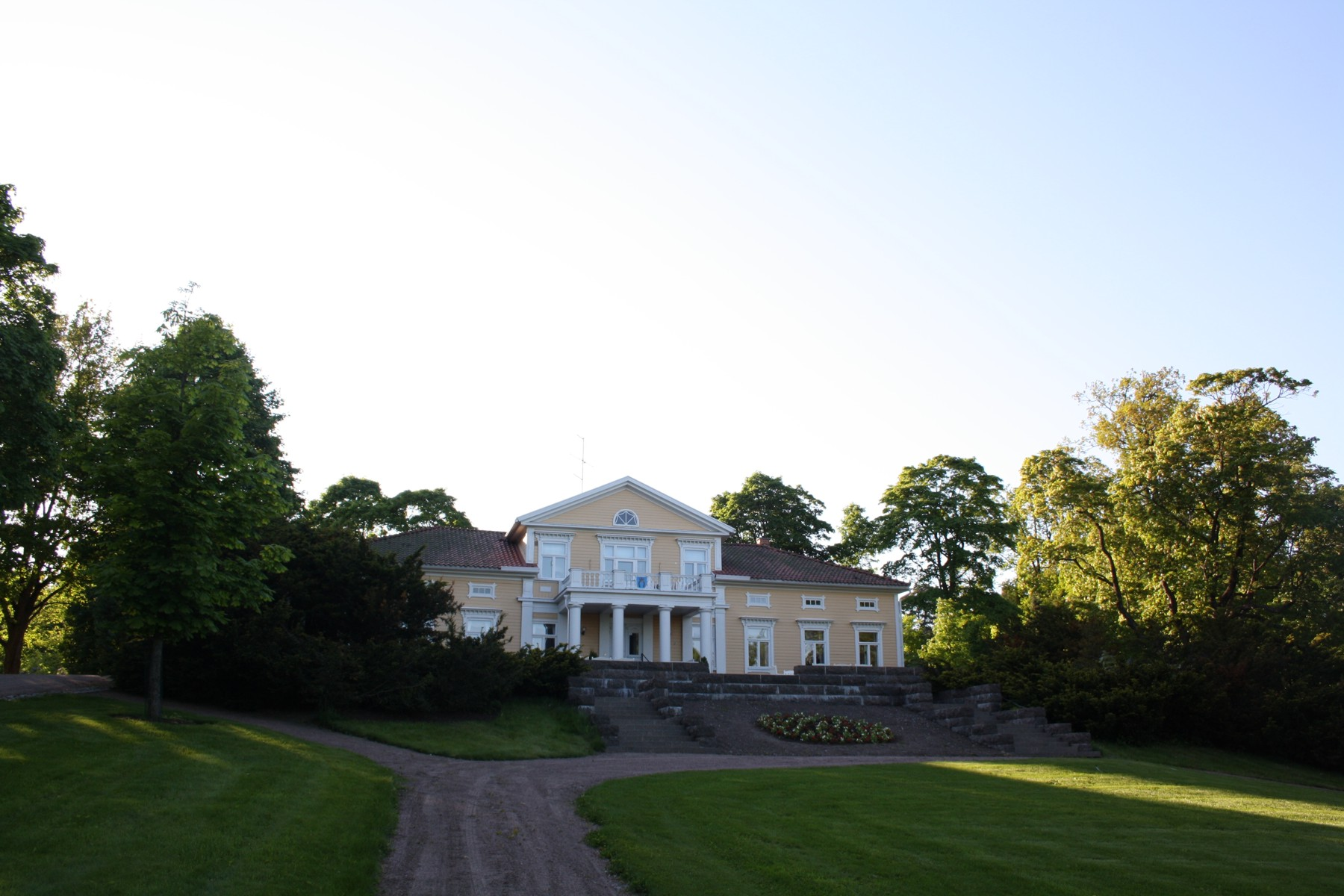 Gumböle manor house, Espoo, Finland. It's the official residence of the Mayor of Espoo.